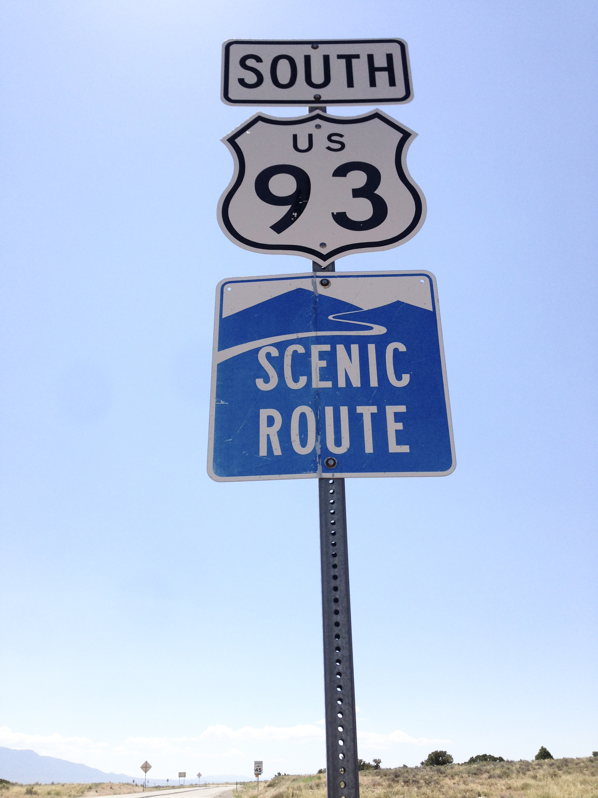 Signs along southbound U.S. Route 93 about 26.7 miles north of the Lincoln County line near Majors Place, Nevada